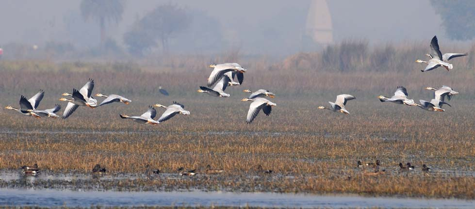 Bar-headed geese Anser indicus, winter visitors to northern India, seen today morning at Dadri wetlands near Delhi, Uttar Pradesh, India.